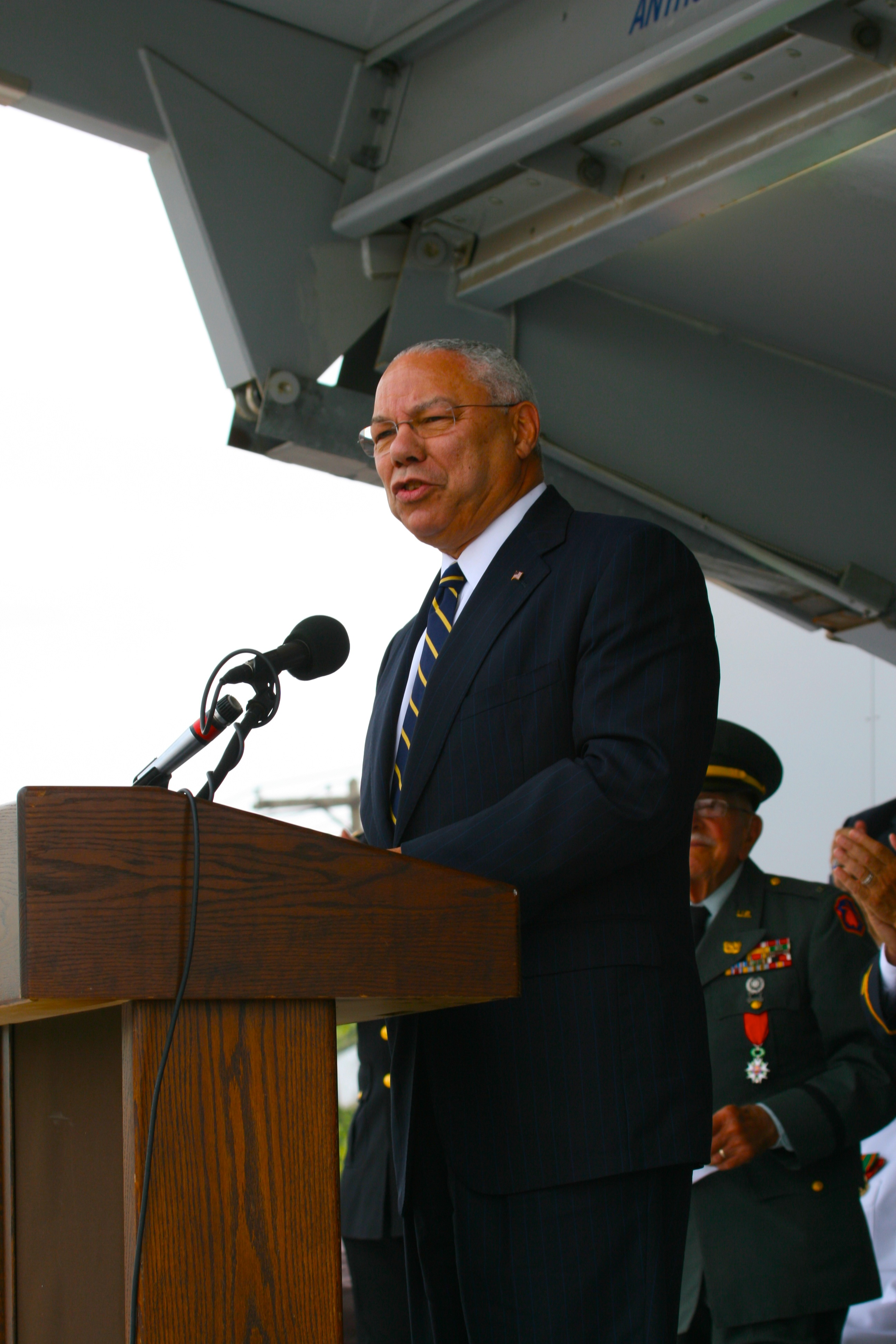 Photograph of Colin Powell at dedication ceremony for the Town of Tonawanda Veterans Memorial